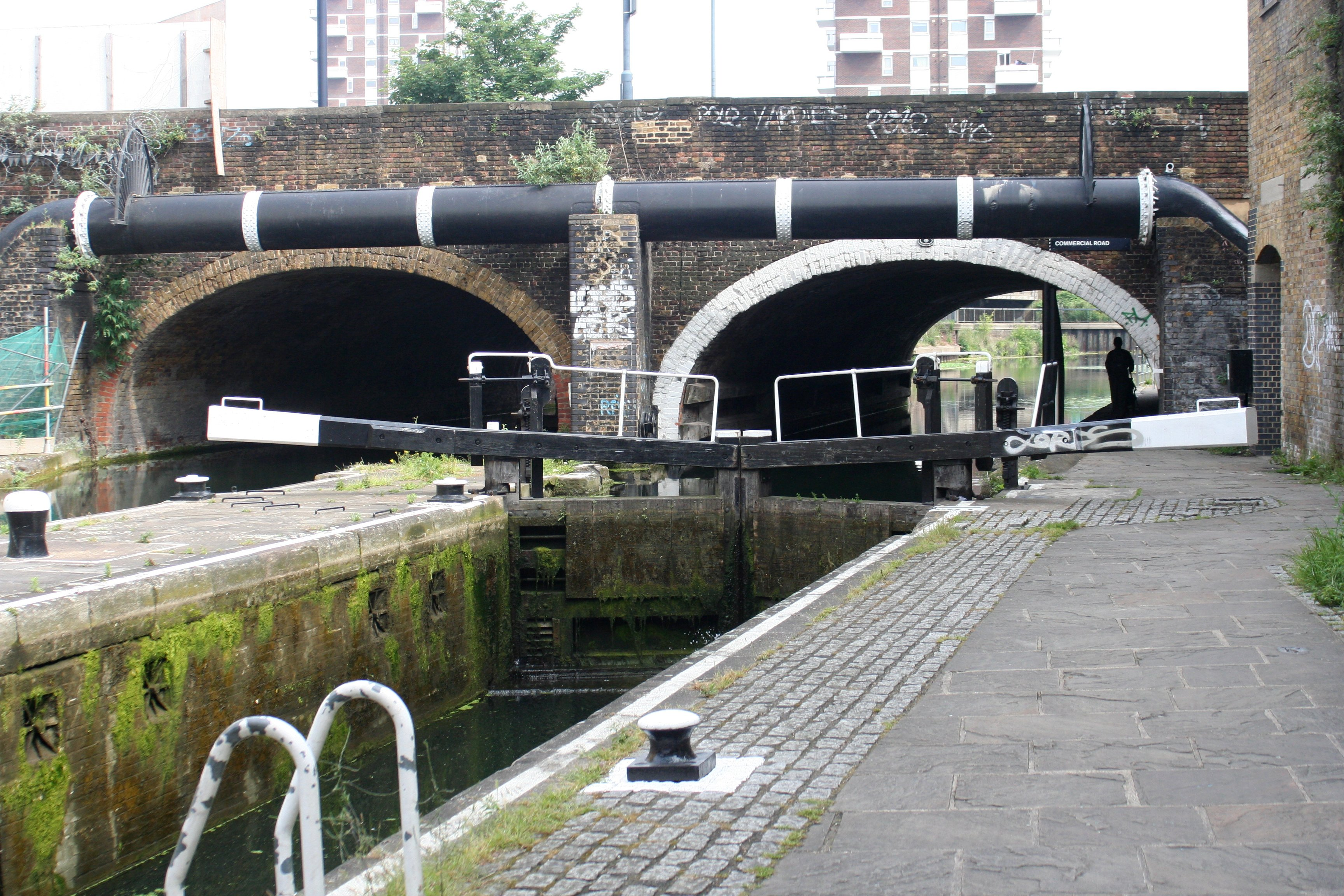 The Commercial Road lock, on the Regent's Canal (London), where the canal meets Limehouse Basin.